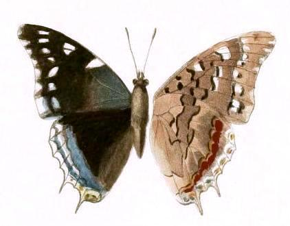 Blue-spangled emperor, male, from colour plate accompanying original description